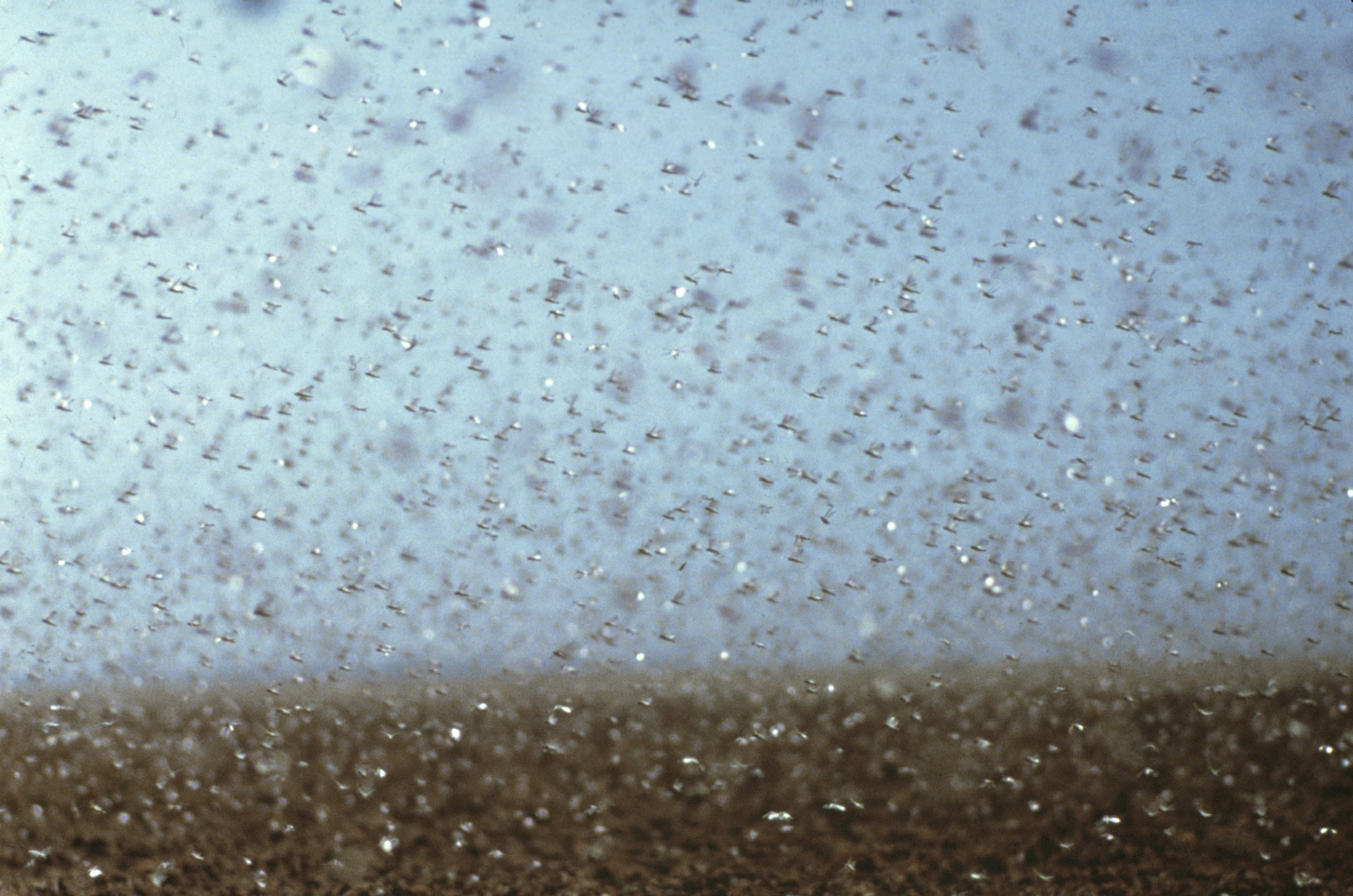 Most commonly called grasshoppers, species in the family Acrididae vary greatly in shape, size and colouring, but all possess large hind legs well developed for jumping. They have short antennae, a short ovipositor and well-developed wings. Grasshoppers are active during the day and can produce sound by rubbing a row of pegs located on the hind legs against part of the forewings. Most species feed on grass (as their name suggest), but other vegetation is also consumed including leaves, stems and even dead eucalyptus leaves. The name locust is given to those species that are known to build up in large numbers. Locust swarms then migrate across vast areas causing almost complete destruction to all green vegetation, especially agricultural crops. The Australian plague locust is a native species of Australia and is one of the most economically important species in Australia. At times this species is known to build up in great numbers forming swarms that migrate across central and eastern Australia eating their way through almost anything green. This species can be recognised by the black patch on the tip of the hind wing and the red colouring on its hind leg. The body of female Australian plague locusts is usually green, but when swarming is brownish in colour.